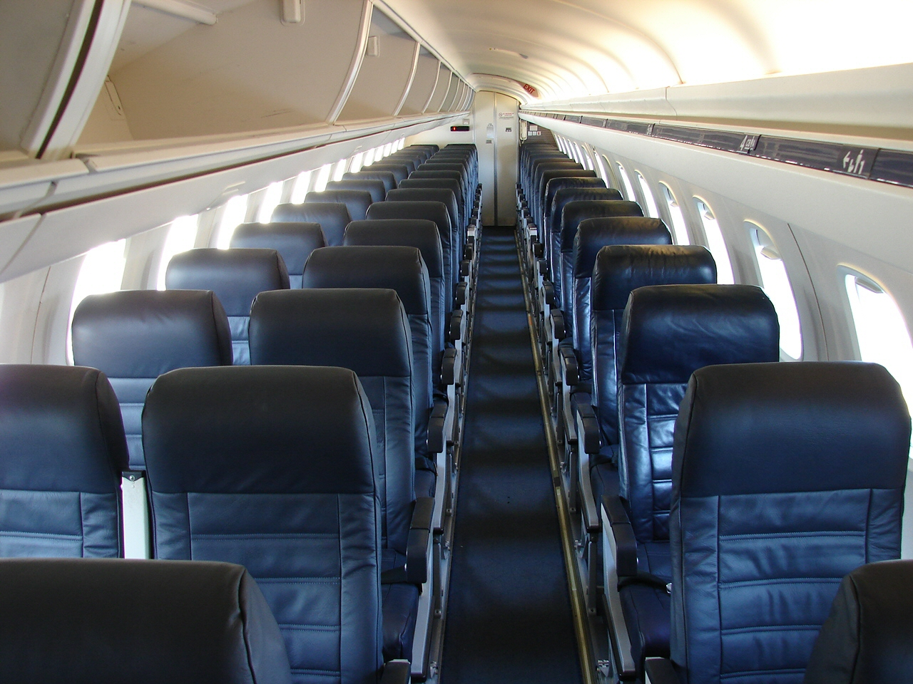 American Eagle EMB-145LR [N627AE]